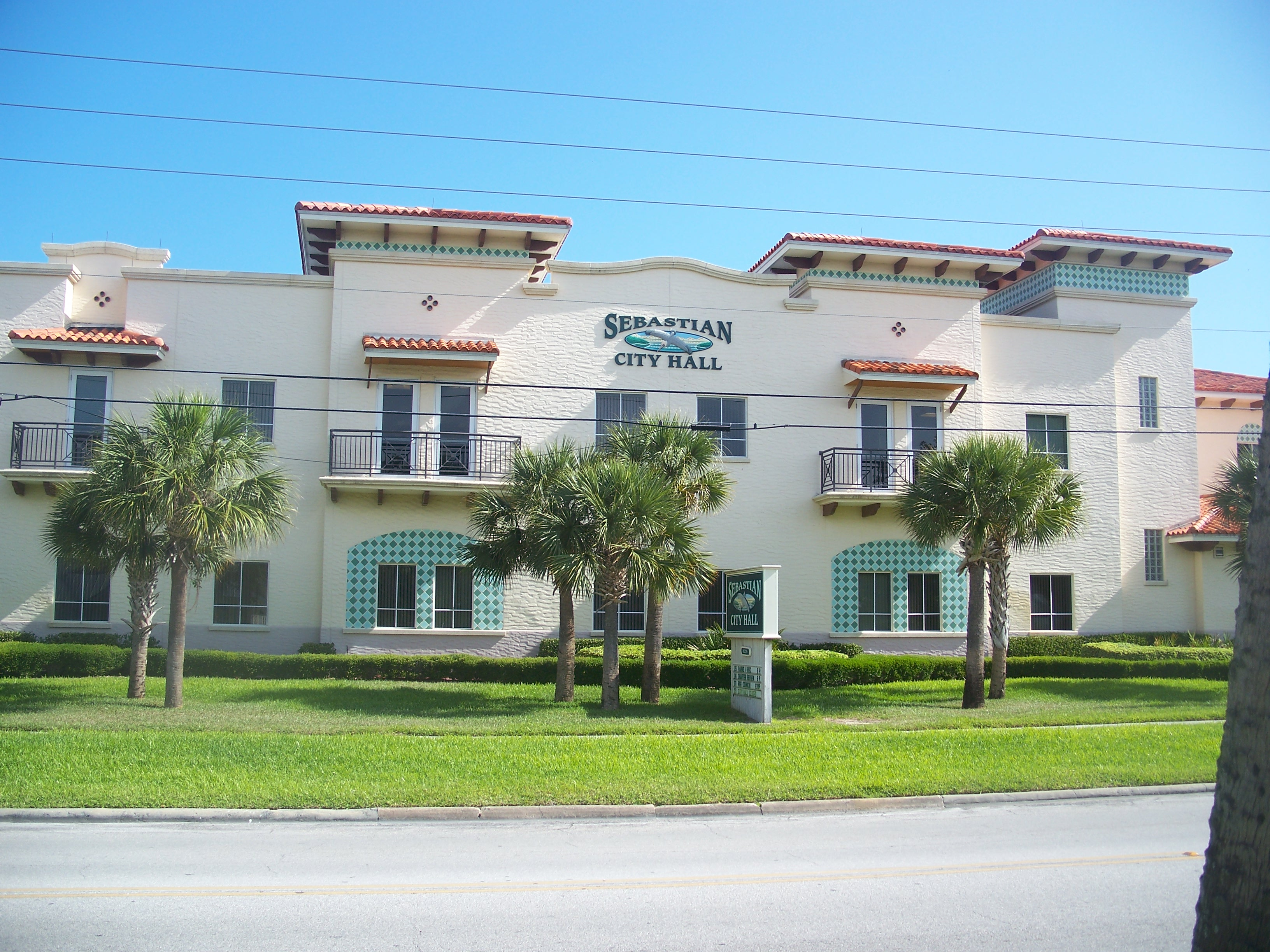 Sebastian, Florida: City hall